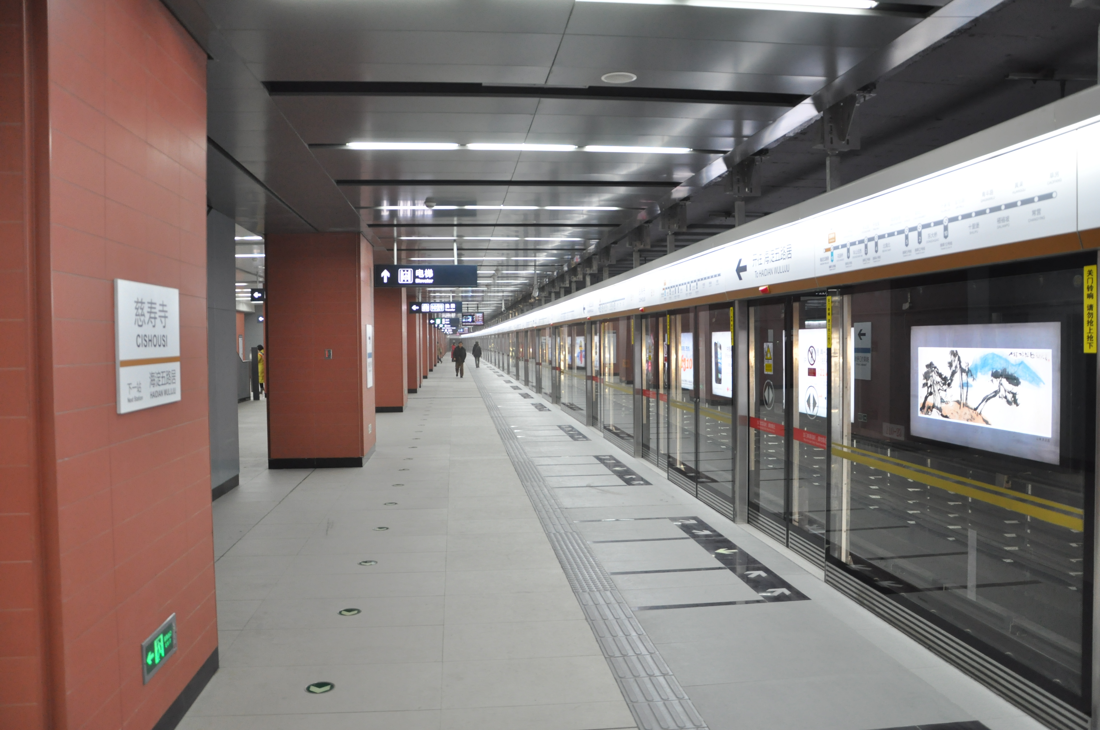 Platform of Cishousi station, Line 6, Beijing Subway.